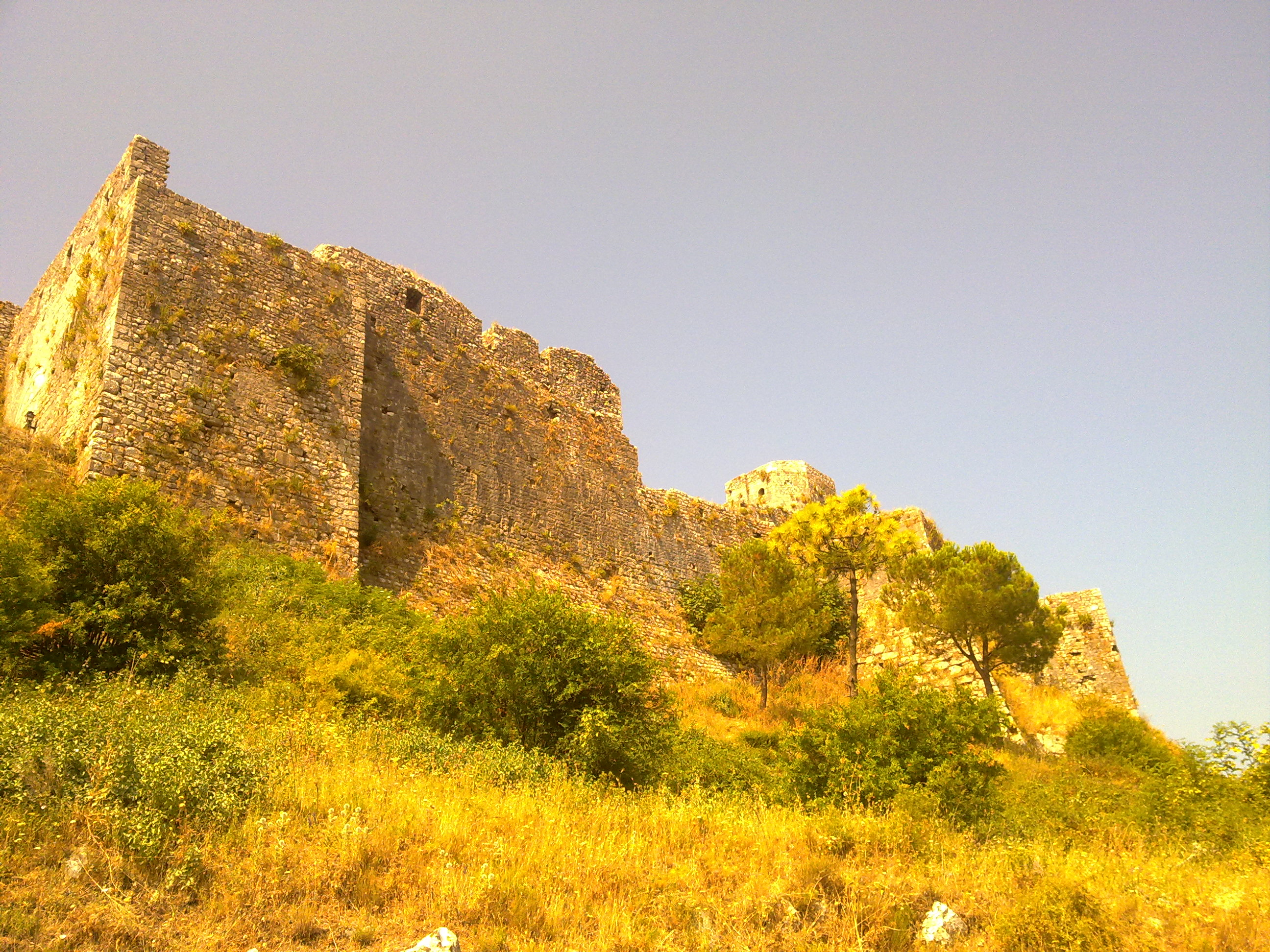 Shkoder fortress in Albania.